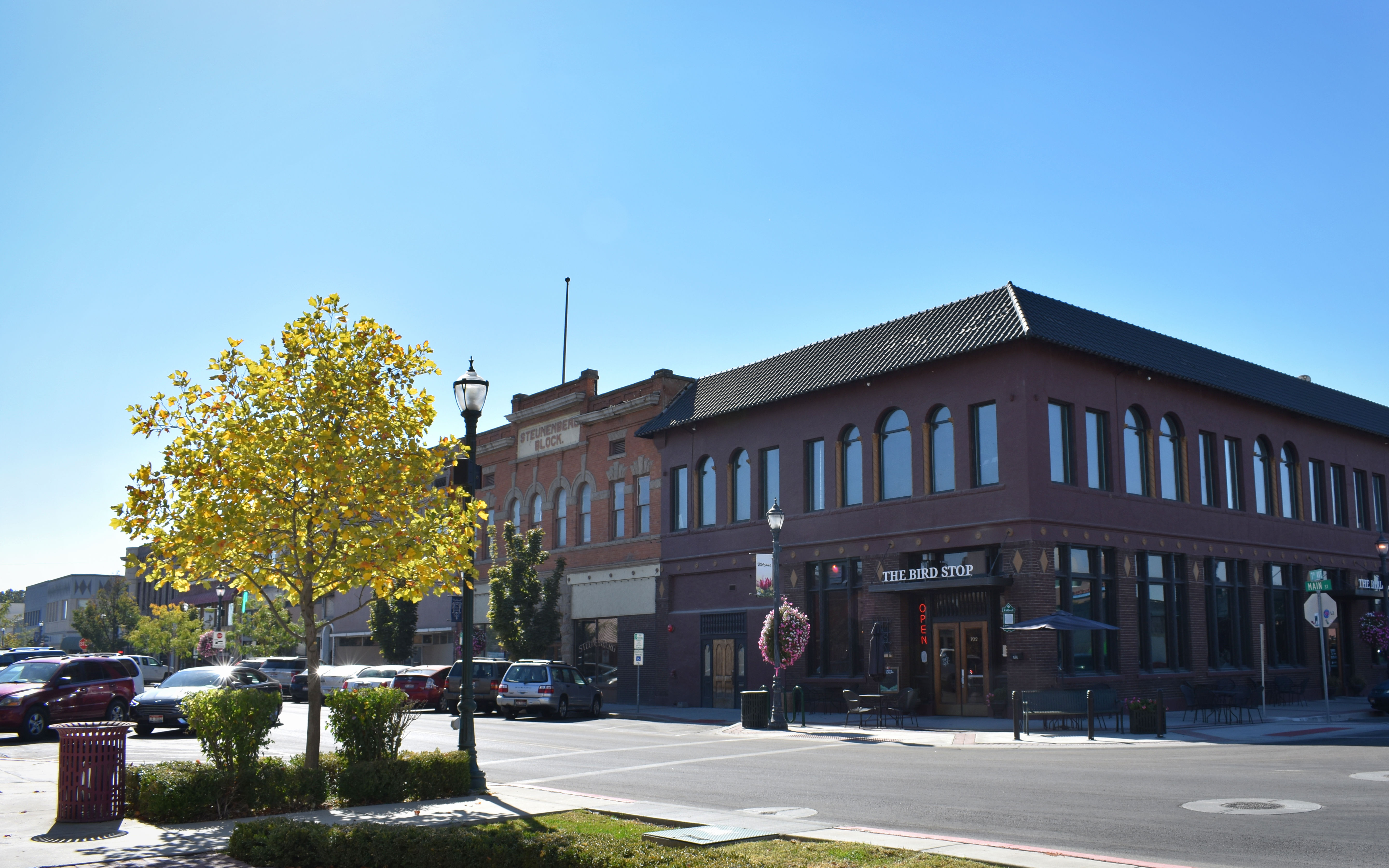 In the Caldwell Historic District, Caldwell, Idaho, the Commercial Bank Building (1906) is at the corner, and to its left is the Steunenberg Block (1906).